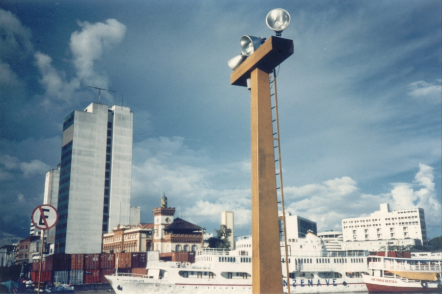 Port of Manaus, Amazonas State, Brazil.